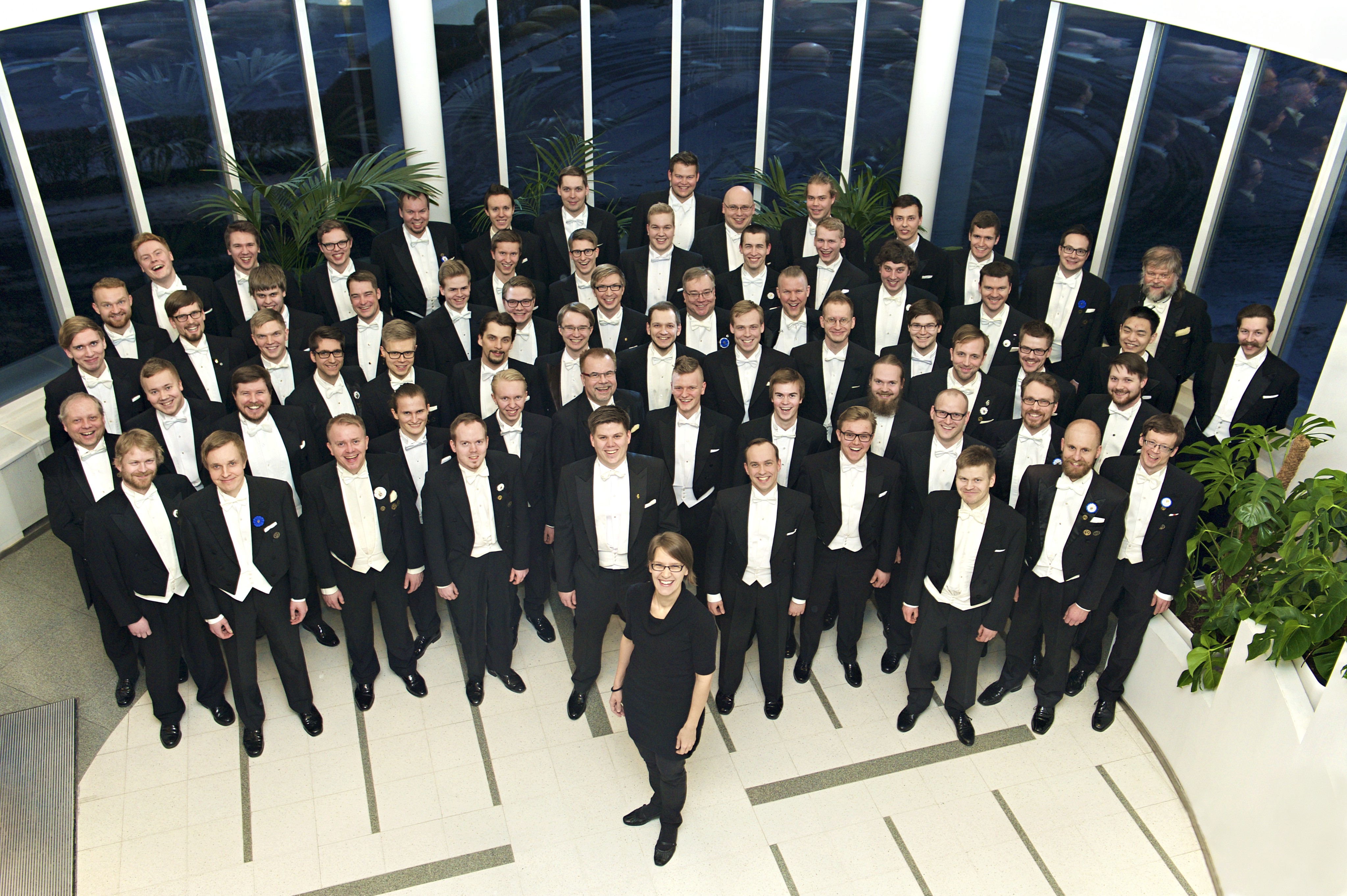 The Polytech Choir and artistic director Saara Aittakumpu at the Tampere Hall in 2017.